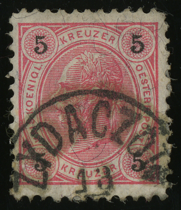 Austria KK 5 kreuzer stamp, issue 1890, cancelled at ŻYDACZÓW, Galicia, Ukraine, Bezirk of same name. Postoffice created 7 January 1868.